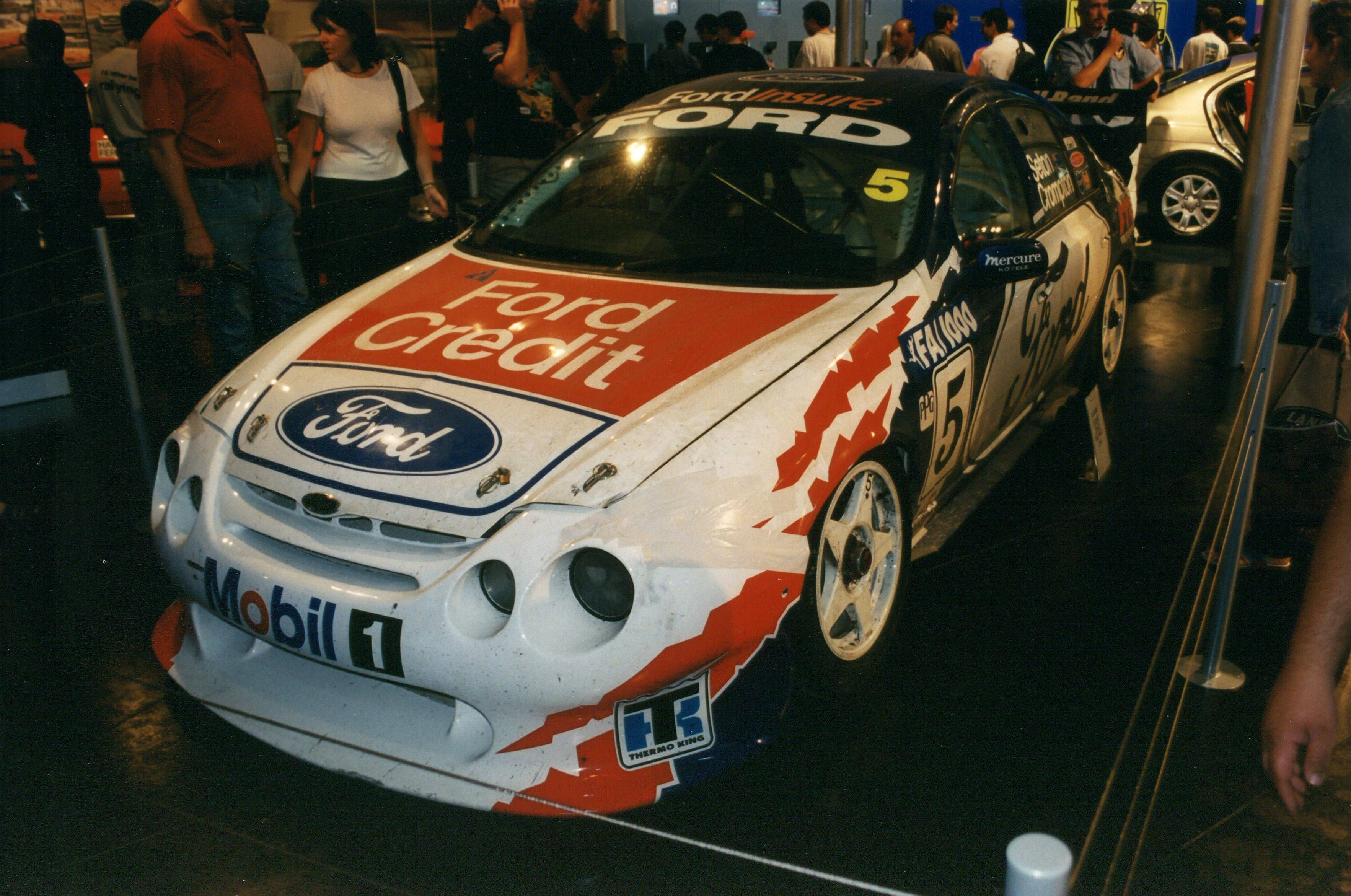 This image is a scan of a 35mm print taken at the 2000 Sydney Motor Show